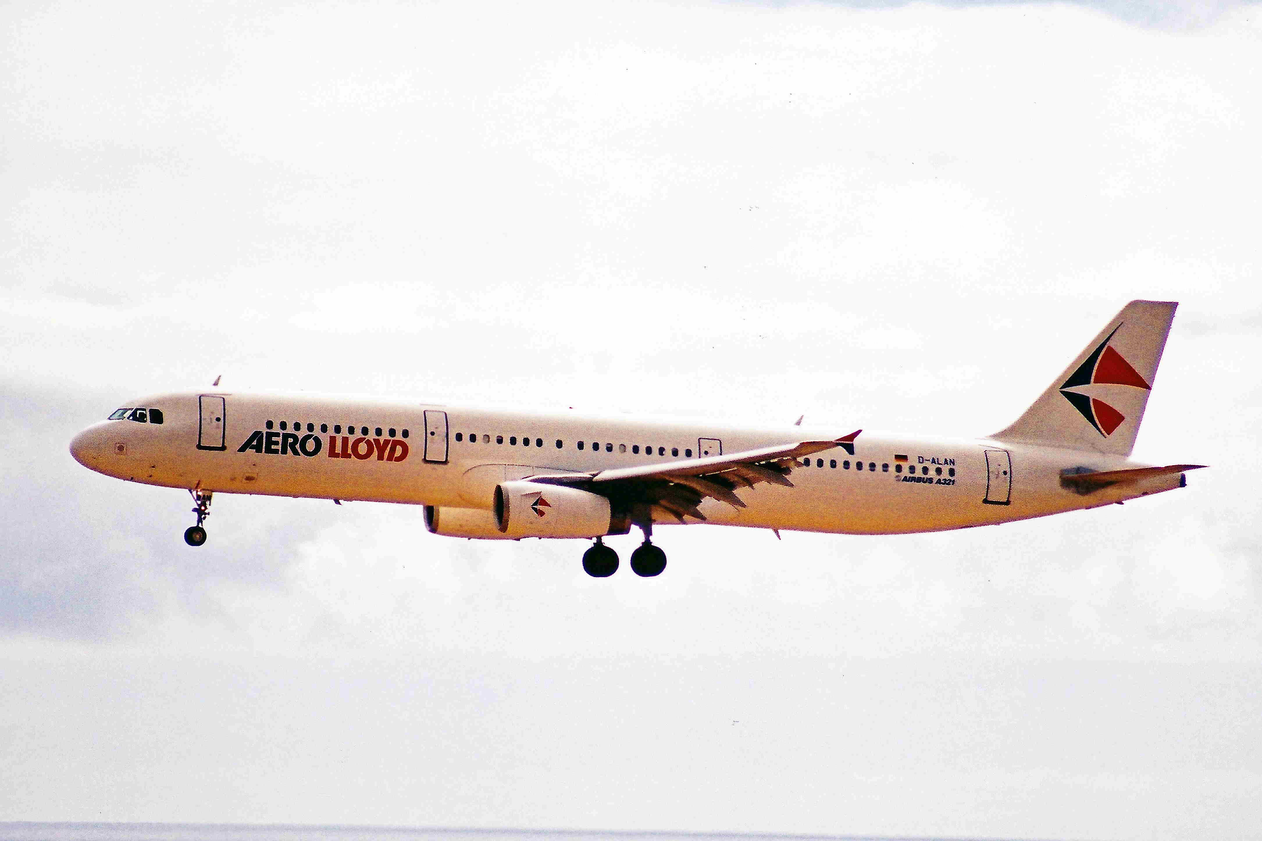 A picture of an airplane (name of it is on the file name).